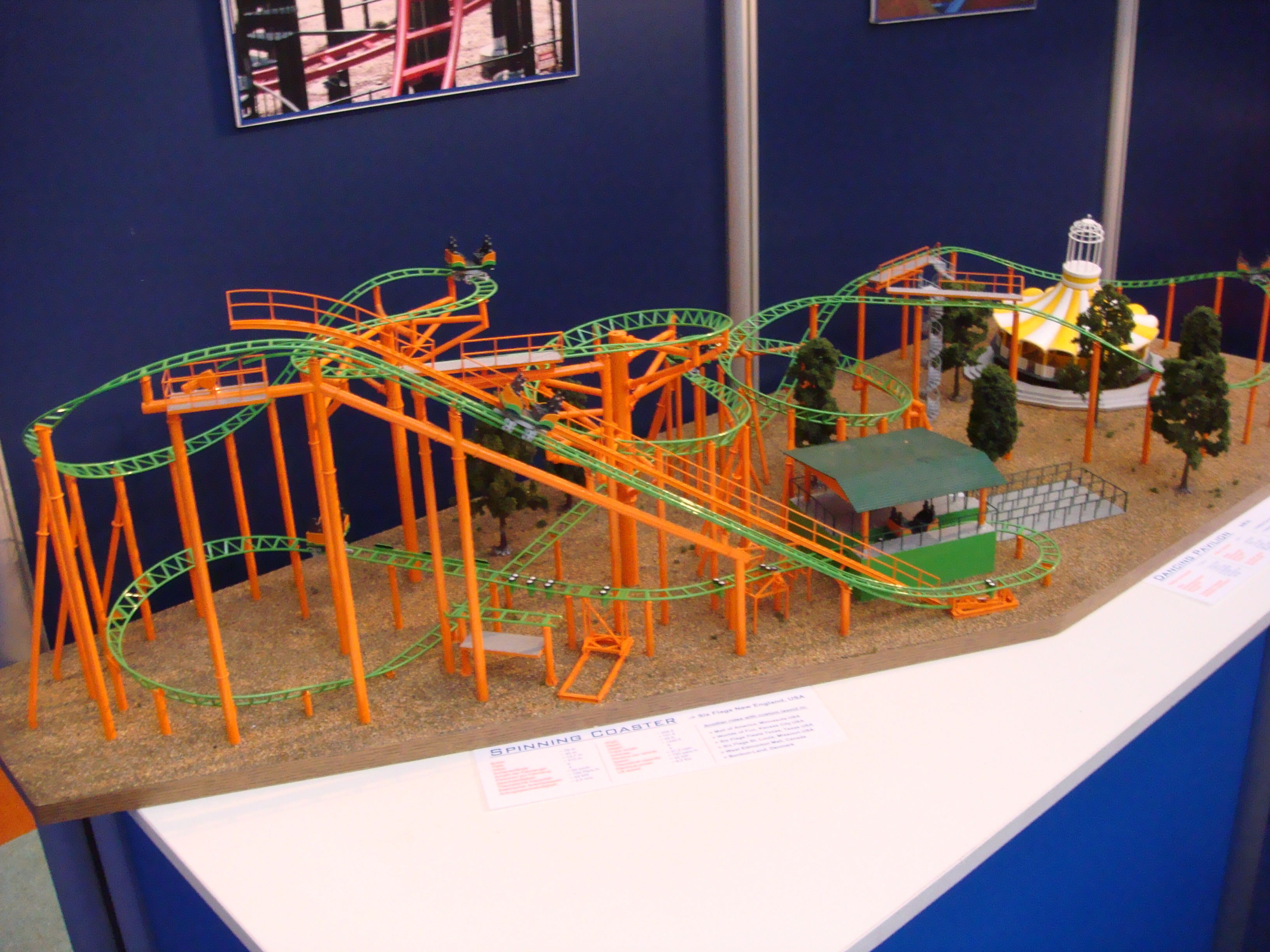 A model of Six Flags New Englands Pandemonium on display at the IAAPA Euro Attractions Show 2009